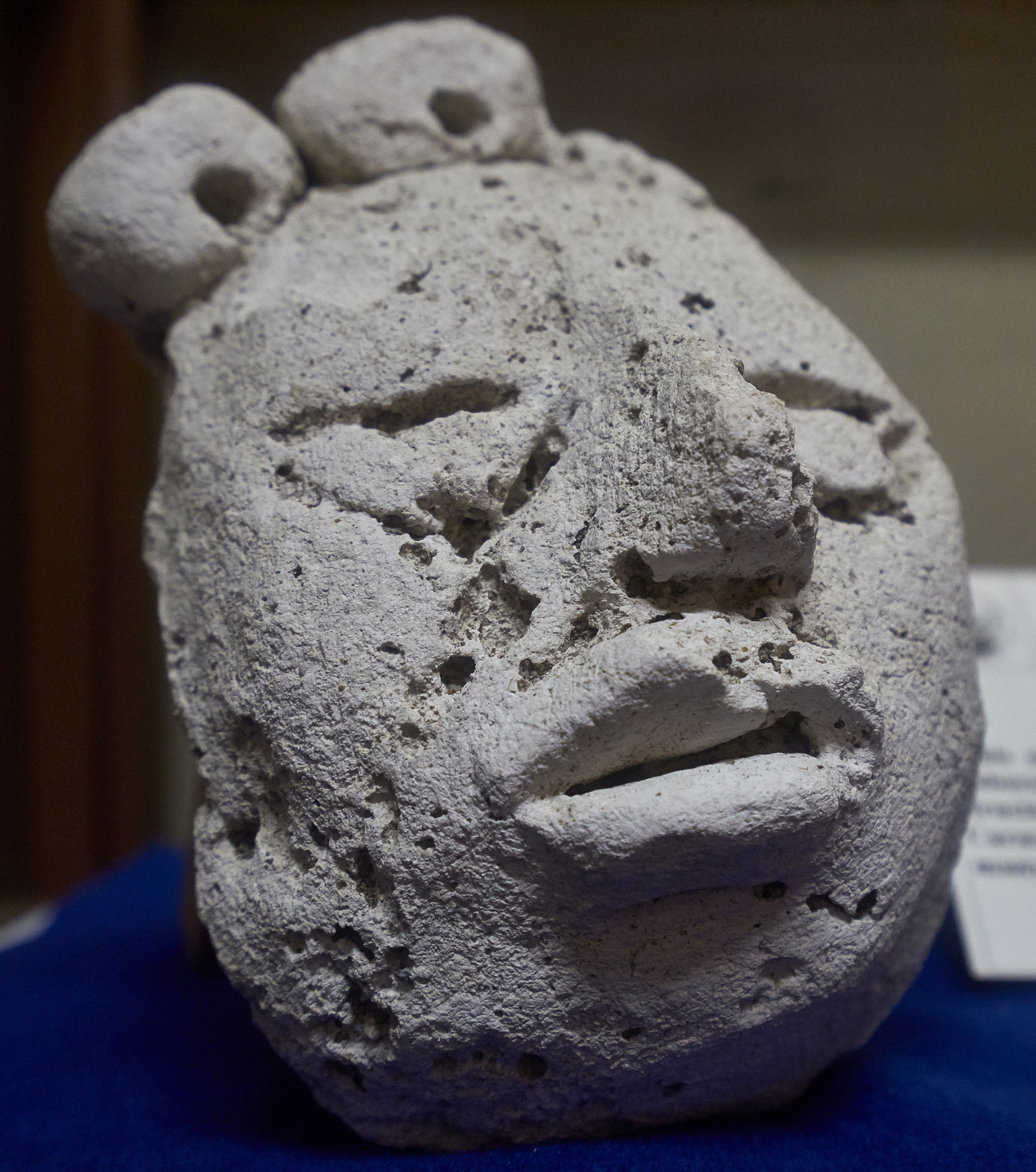 Stucco figure, 700-850 AD, Exhibit in the Visitors Centre of Cahal Pech - Archaeological site, San Ignacio, Belize The making of this document was supported by the Community-Budget of Wikimedia Germany.